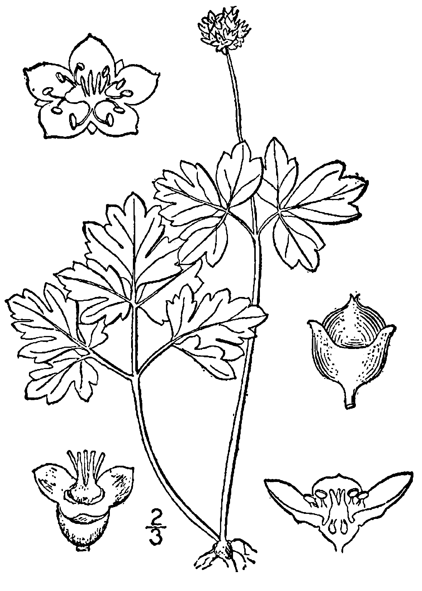 Muskroot. Drawing.